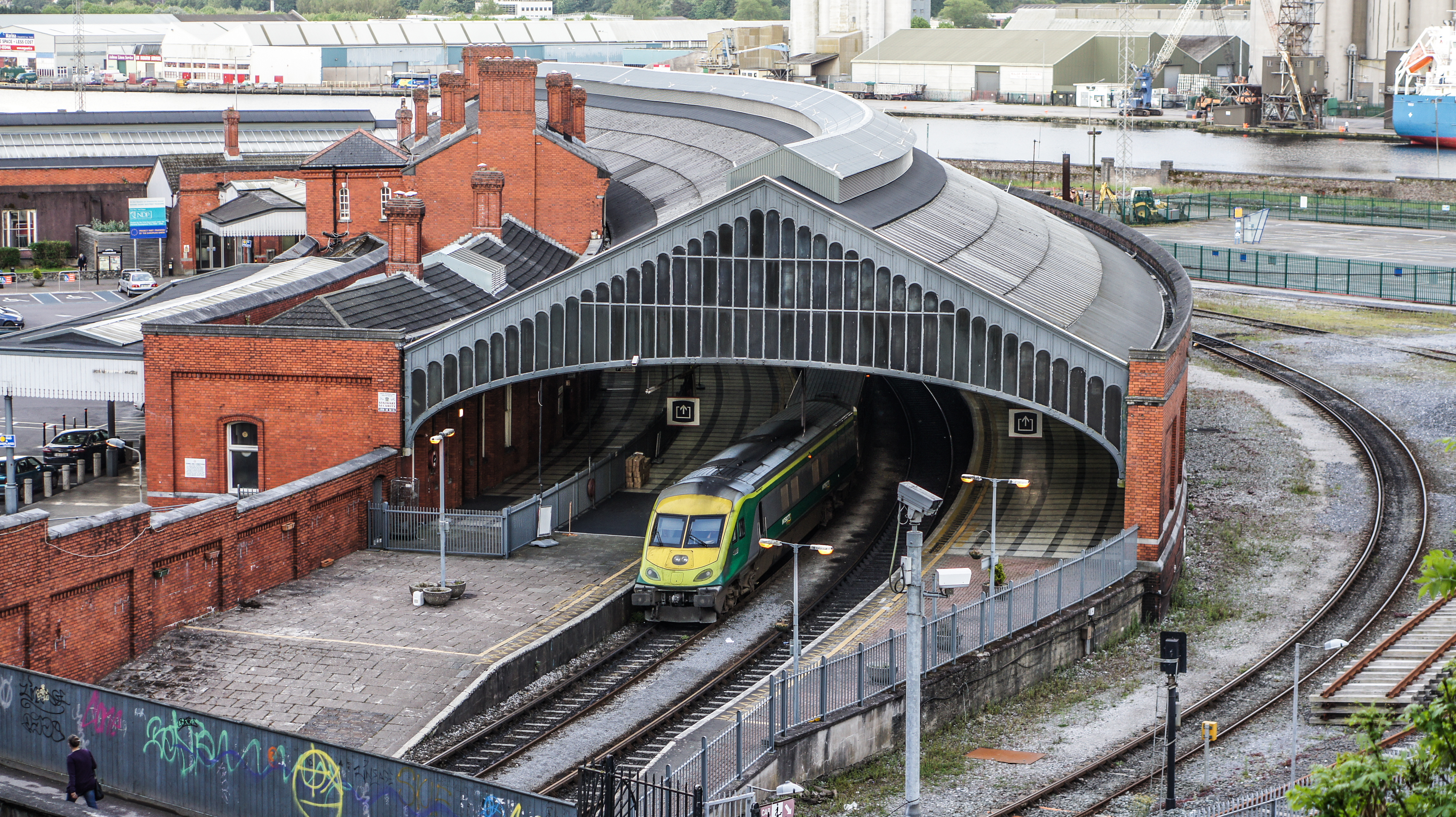 Cork City: Kent Railway Station